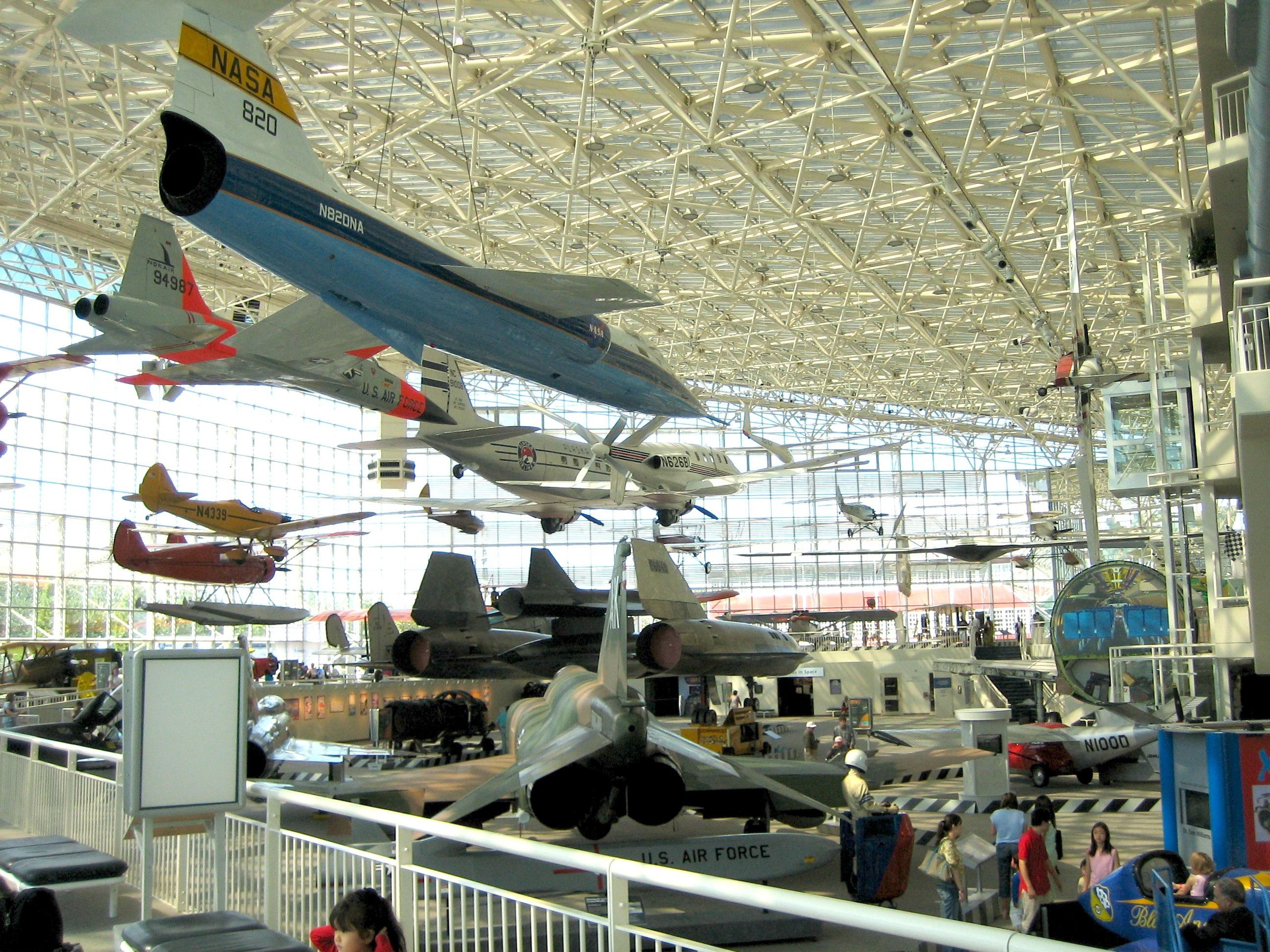 The main display area of the Museum of Flight, located at Boeing Field, Seattle, Washington. Image by Fawcett5, 27 August, 2005.